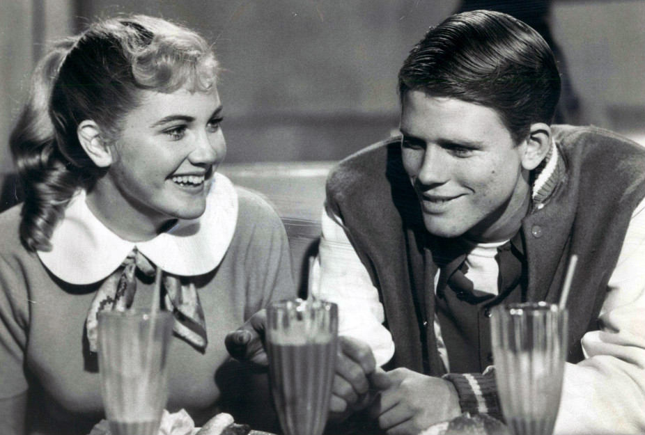 Photo from the premiere episode of the television program Happy Days. Richie (Ron Howard) is on a date with a pretty classmate (Kathy O'Dare) his friend, Potsie (Anson Williams), pushed him into asking for.